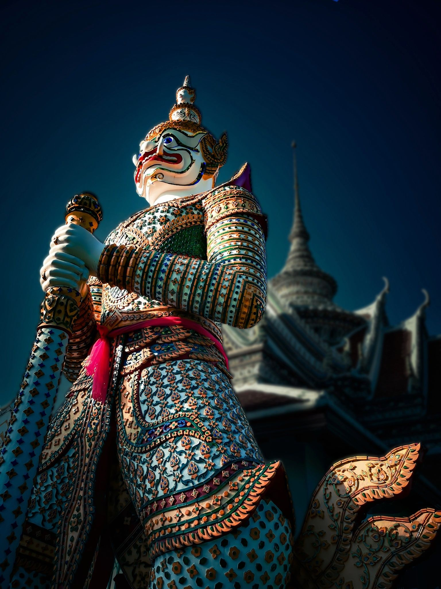 Wat ArunDepicted place: Wat Arun